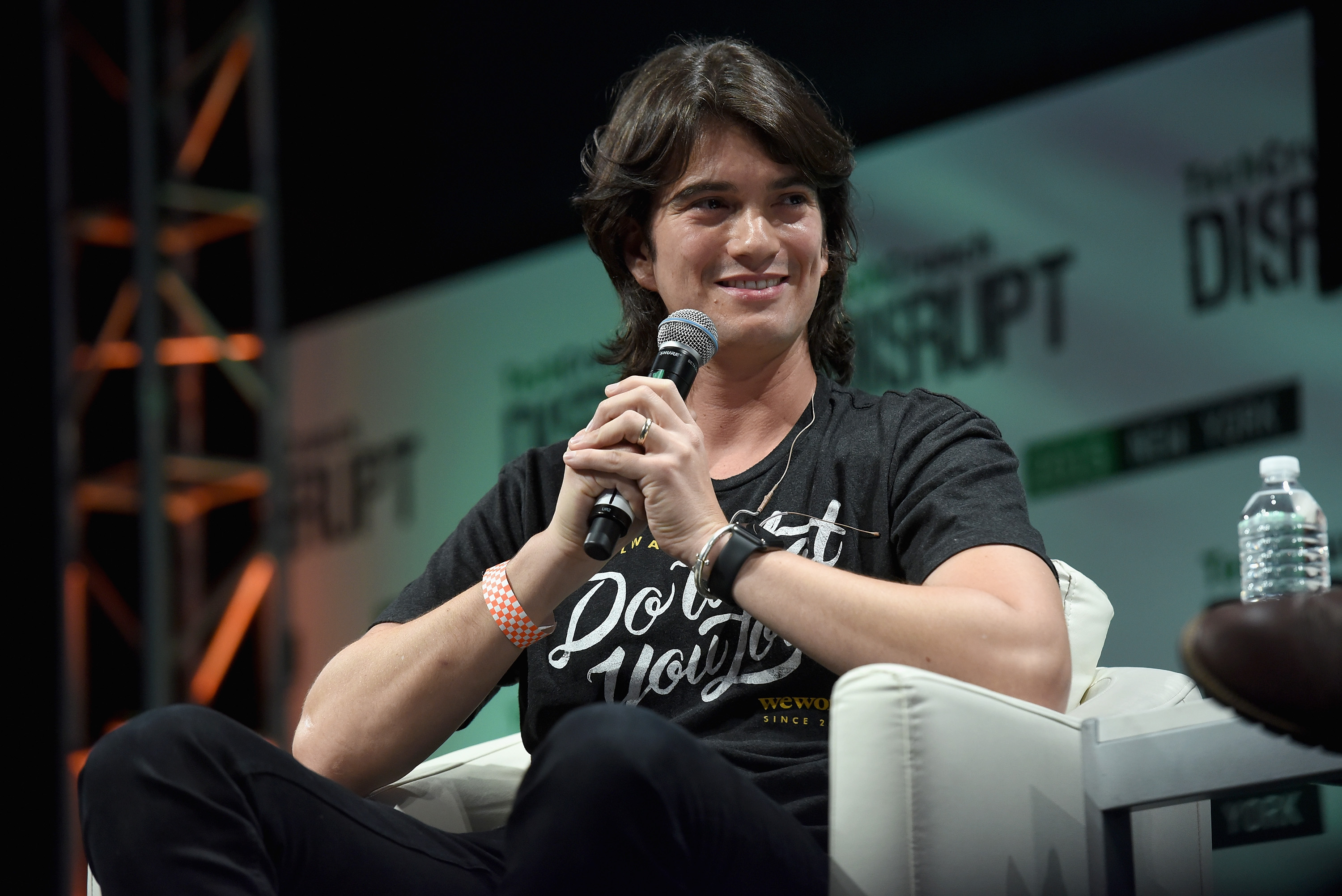 NEW YORK, NY - MAY 05: Co-Founder and CEO of WeWork, Adam Neumann speaks onstage during TechCrunch Disrupt NY 2015 - Day 2 at The Manhattan Center on May 5, 2015 in New York City. (Photo by Noam Galai/Getty Images for TechCrunch)